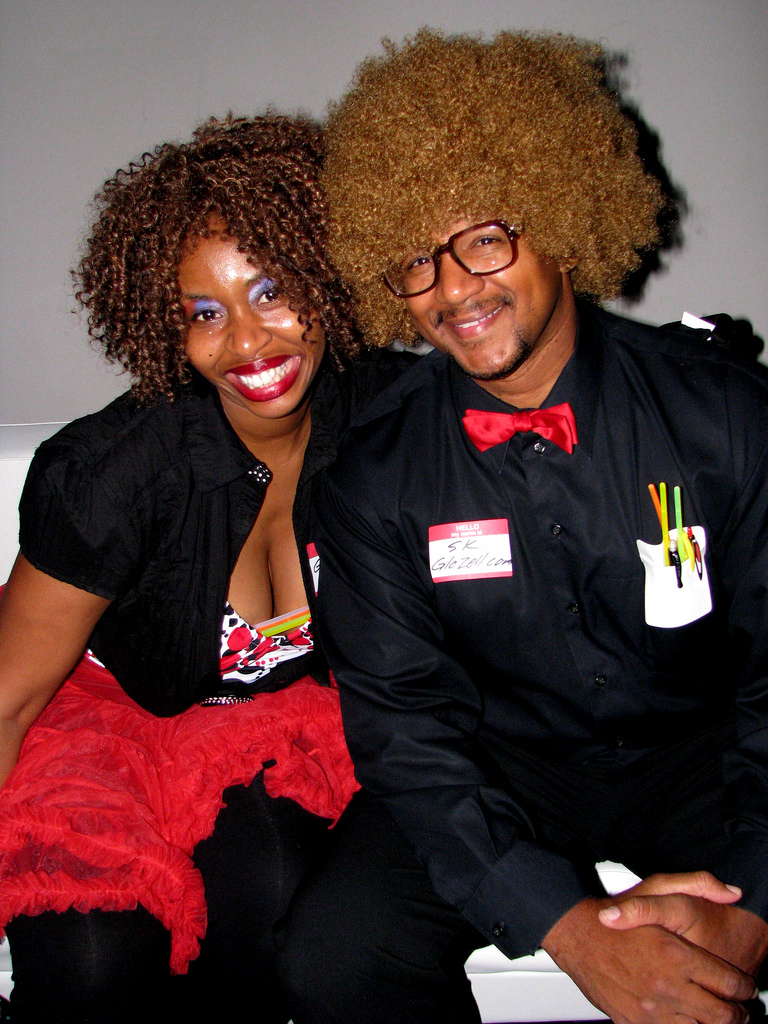 Connect with them!